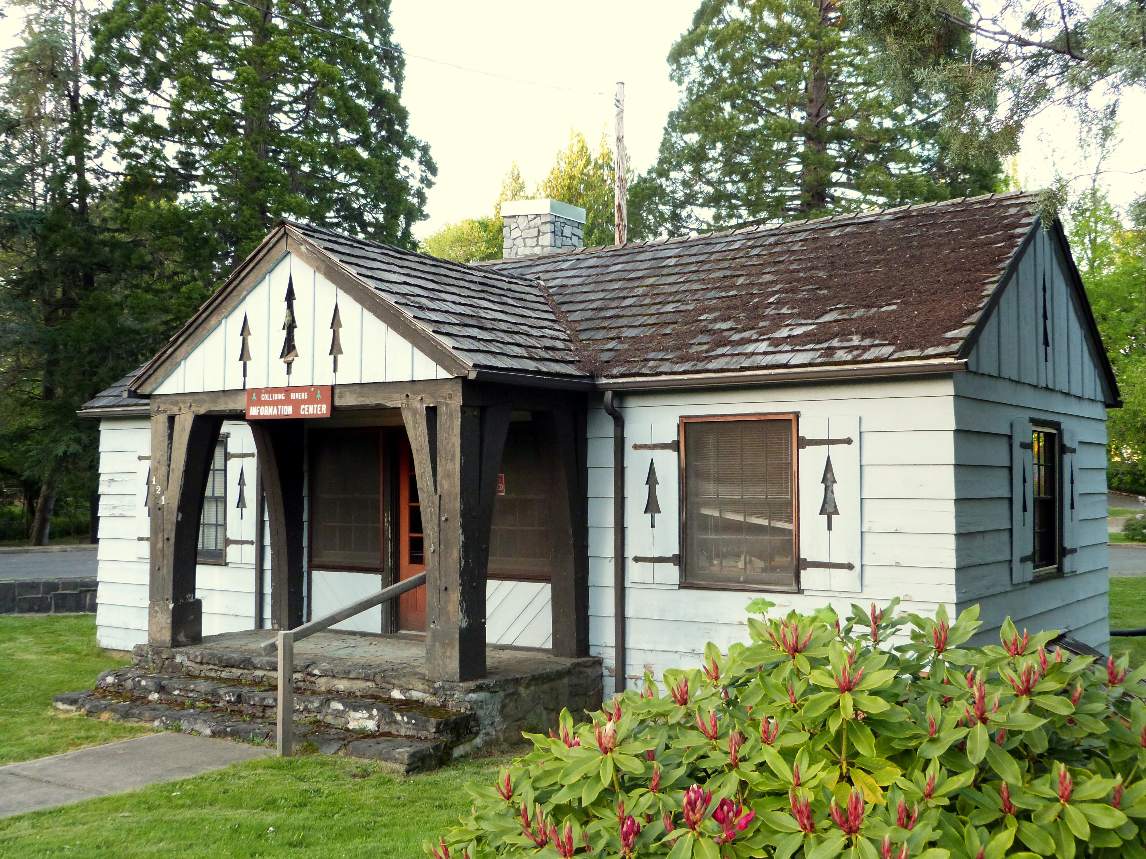 The historic Glide Ranger Station (built 1938), located at 121 Glide Loop Drive in Glide, Oregon, United States, is listed on the US National Register of Historic Places. As of the photo date, it is used as an information station for visitors to the Umpqua National Forest.